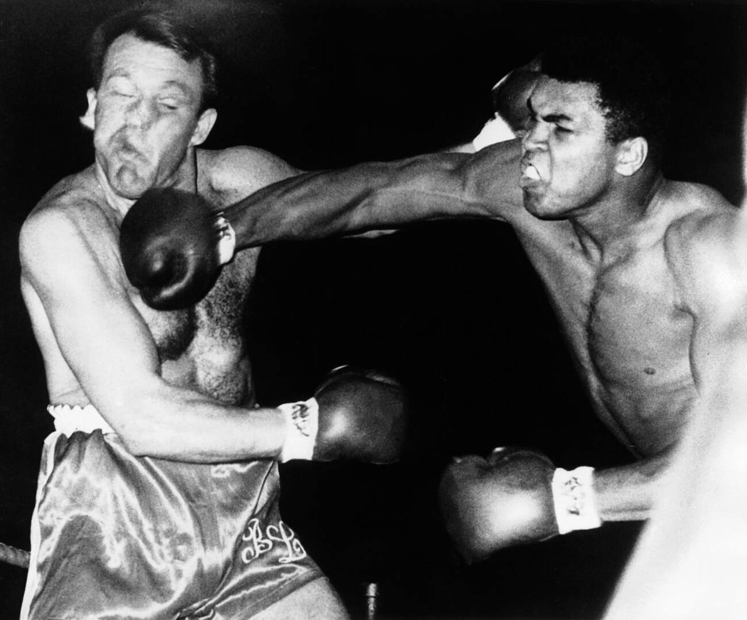 Muhammad Ali fights Brian London on August 6, 1966